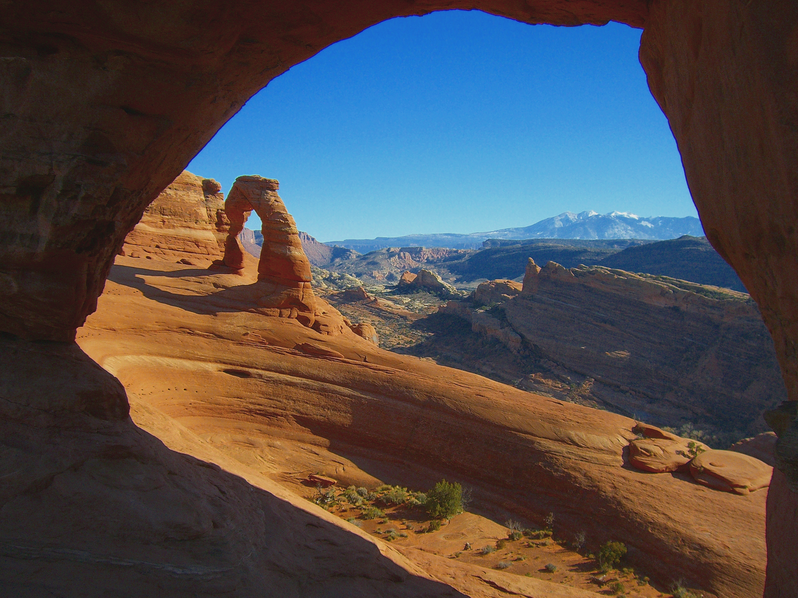 Delicate Arch, Arches National Park, Utah, USA